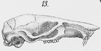 This picture is extracted from "Leche 1886 plate 16.png"; fig. 13. It shows the skull and the upper jaw of the Delomys dorsalis.